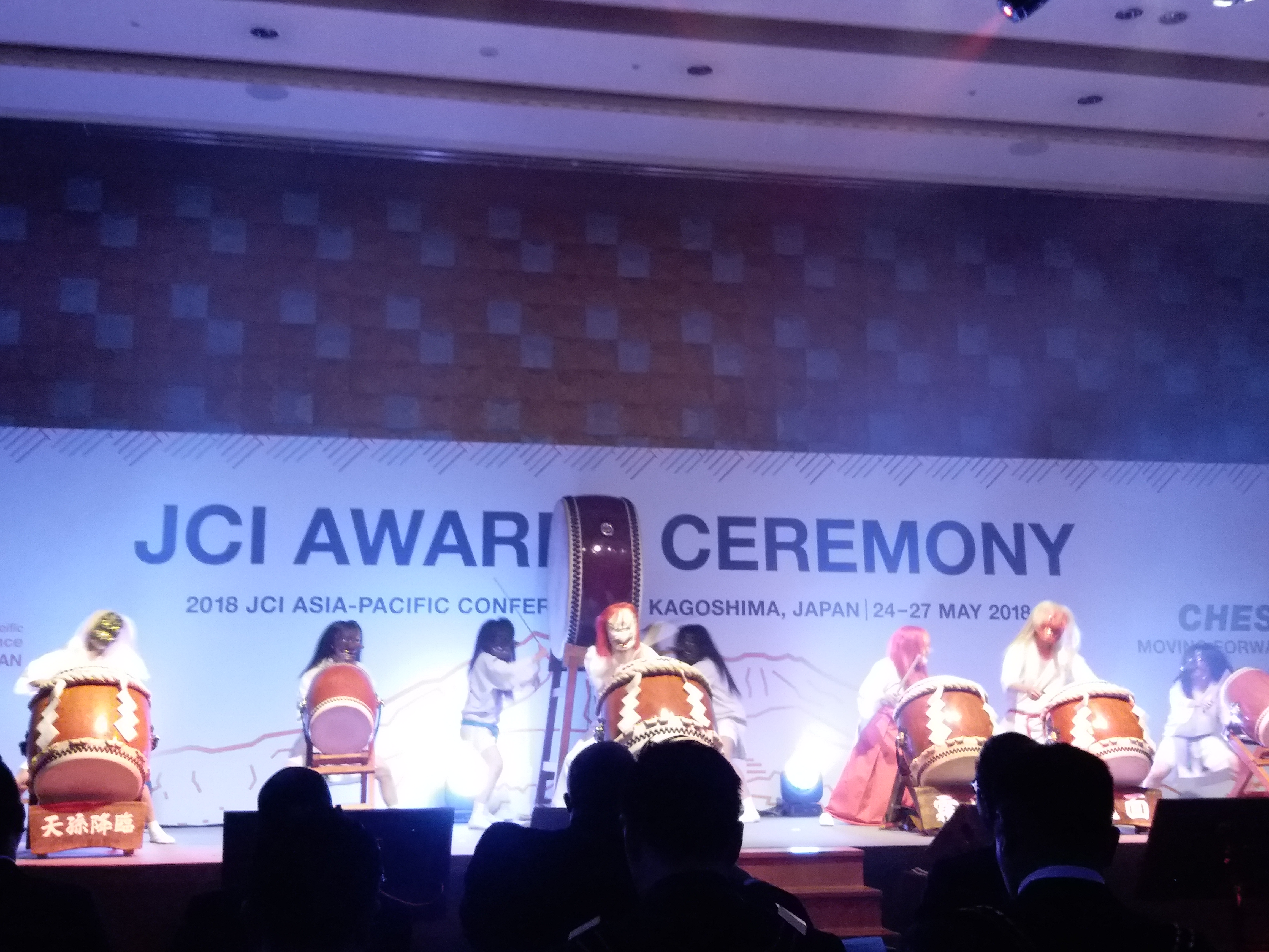 This photo has been taken in the country: Japan